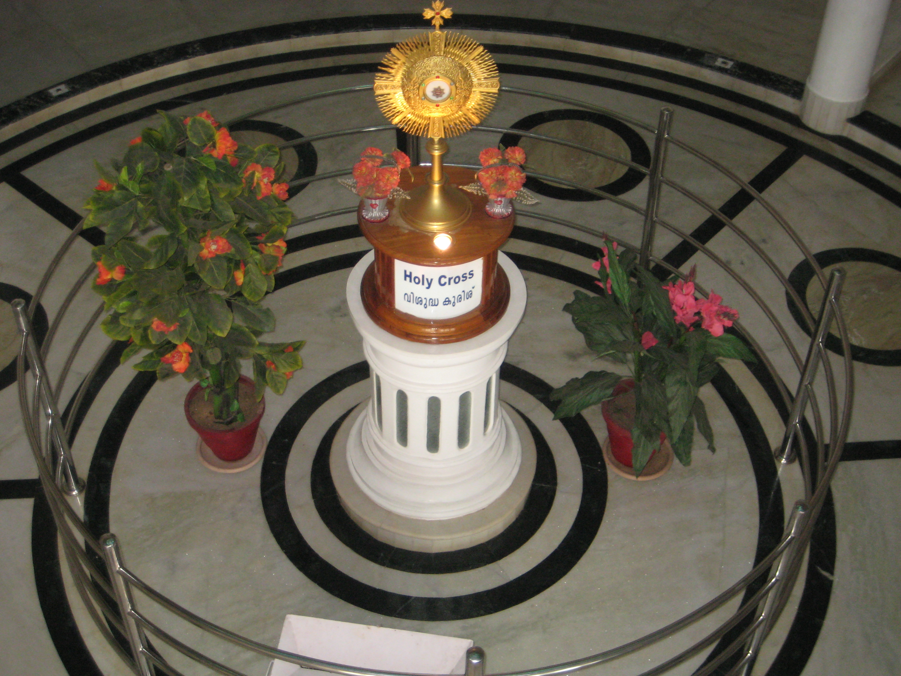 Monstrance Location - Jerusalem Retreat Centre, Thalore, Kerala, India 10 Km away from Thrissur town.